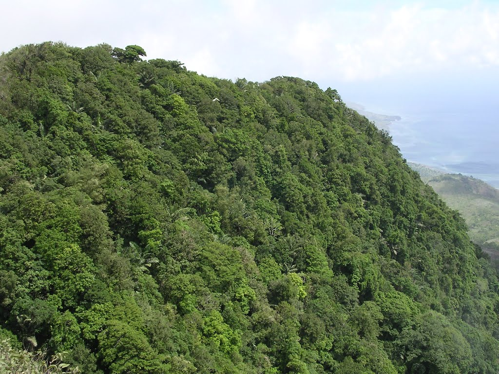 Well developed tropical evergreen forest looks lush in the early wet season, Mt Manucoco, Atauro